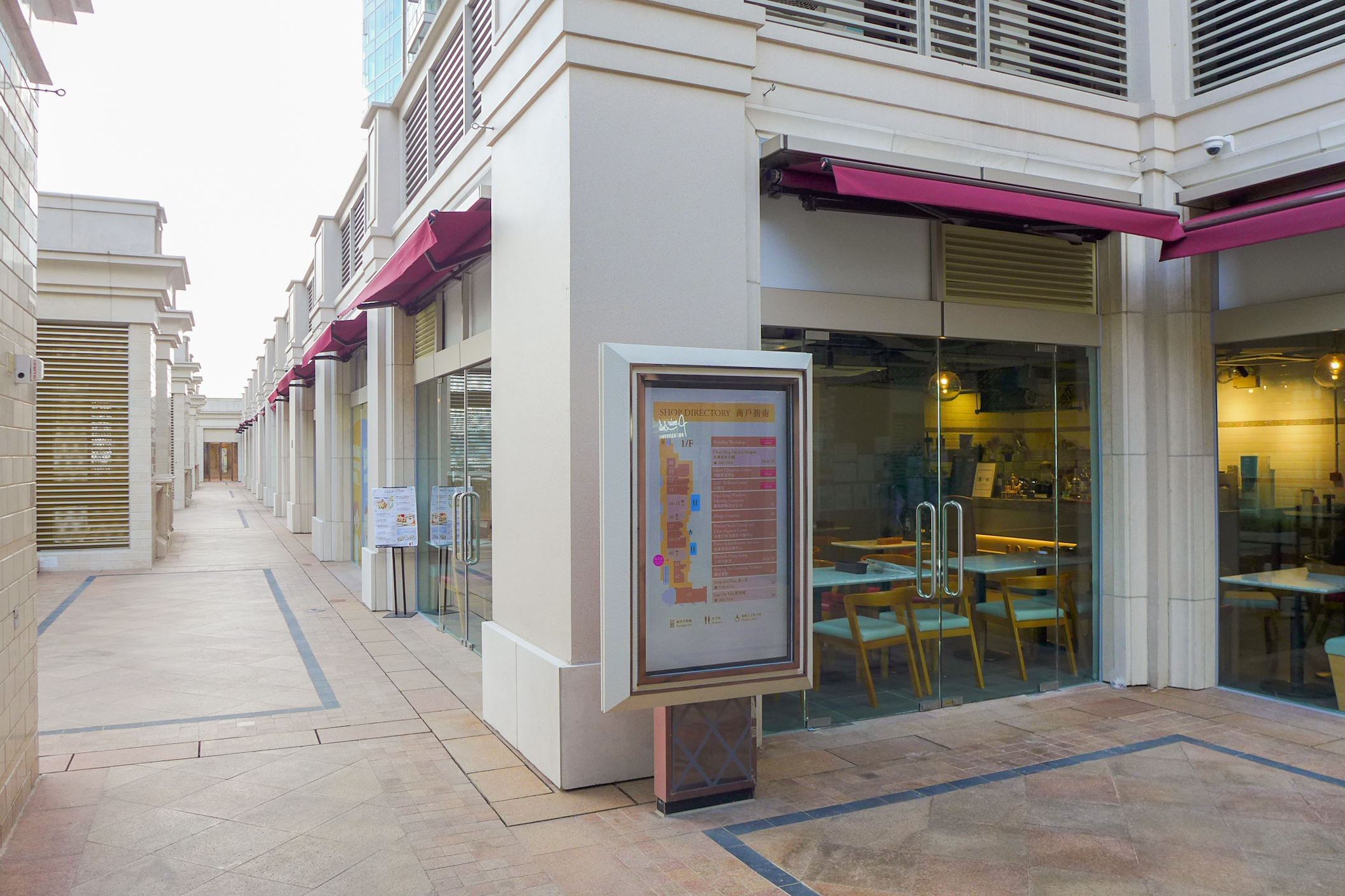 Corinthia by the Sea Level 1 shops